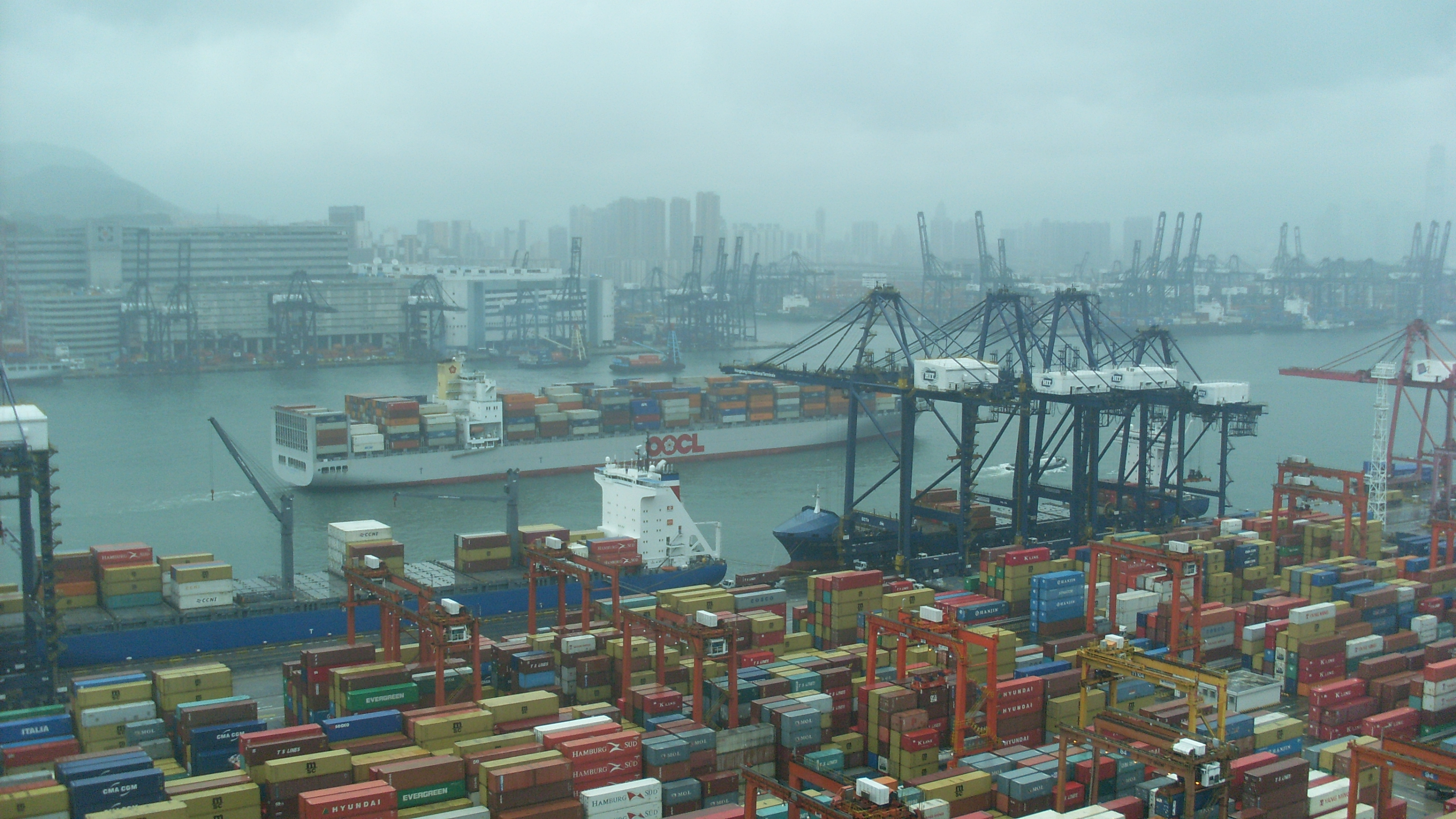 An OOCL vessel passing by Container Terminal 9 on Tsing Yi Island, Hong Kong SAR.